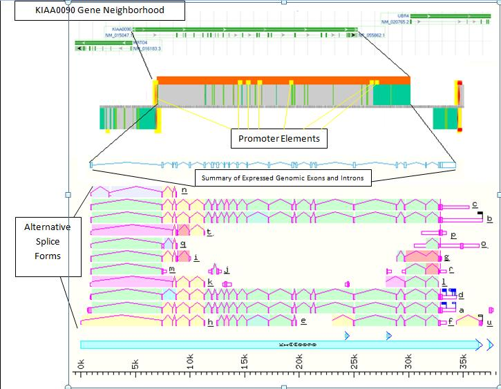 A graphical summary of KIAA0090 gene neighborhood, promoter and exon distribution within the gene, and transcript products.